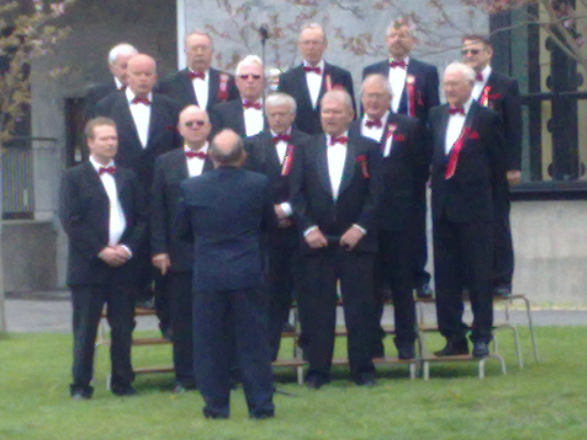 Hortens Sangforening performs in Horten 17 May 2010.